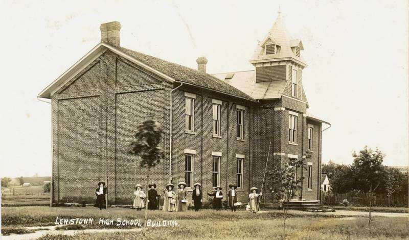 Lewistown School #1, Council Street, Lewistown, Ohio. Built: 1870s or 1880s. Closed: 1918. Demolished: 1945.